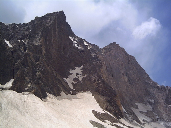 Author: User:Siamax Source: SummitPost Website Tag: Alam Kooh